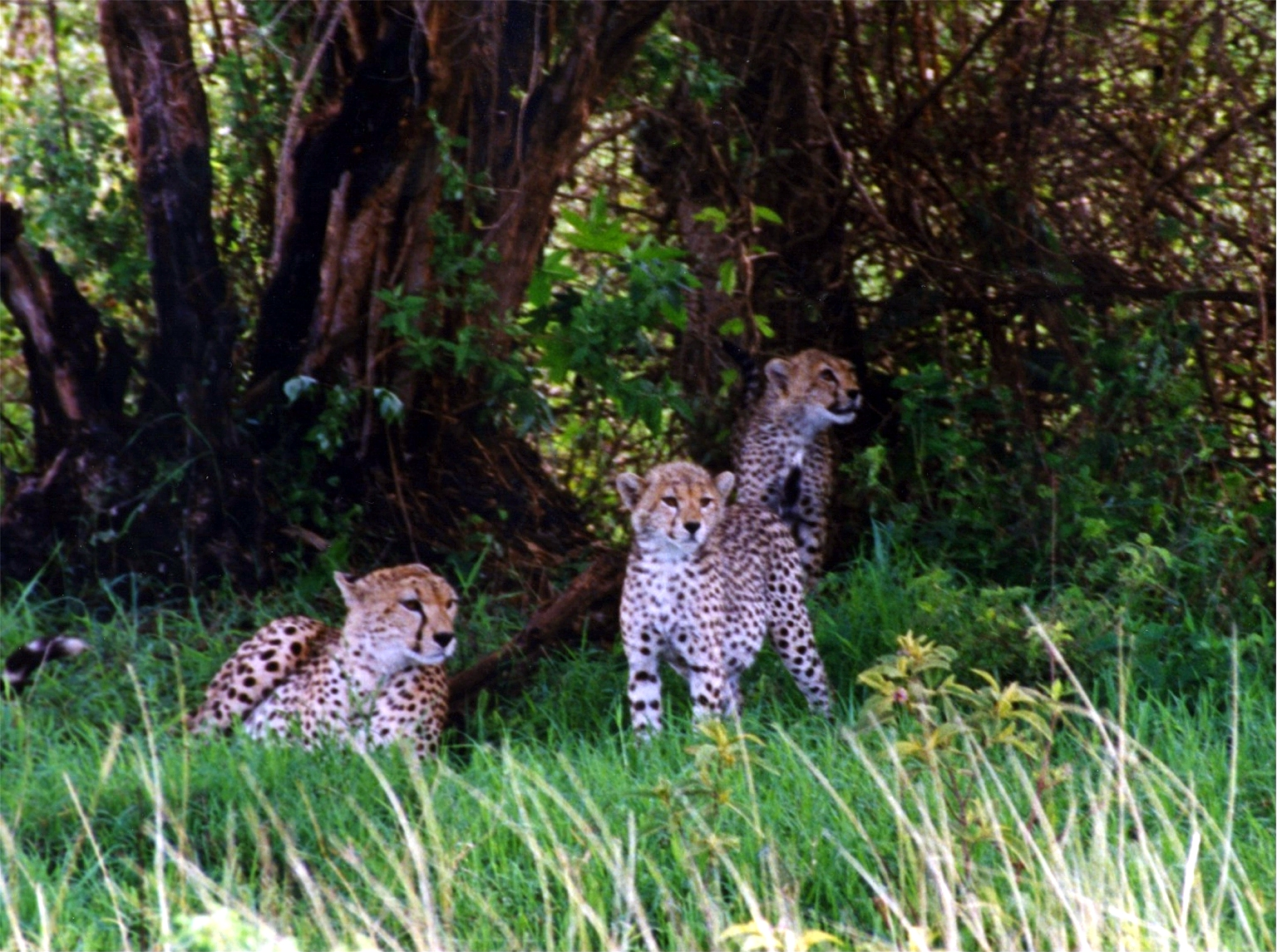 Female Cheetah (Acinonyx jubatus) with two cubs in Ngorongoro Crater. The image is a scan of an old film print. Photograped by Brocken Inaglory in Ngorongoro Crater, Tanzania